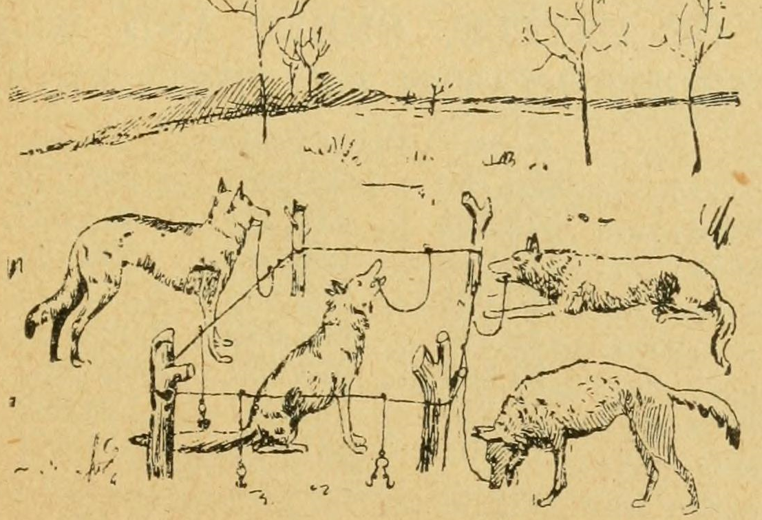 Wolves trapped on a baited trap with fishing hooks